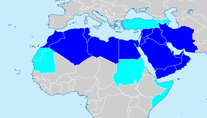 Middle East and North Africa